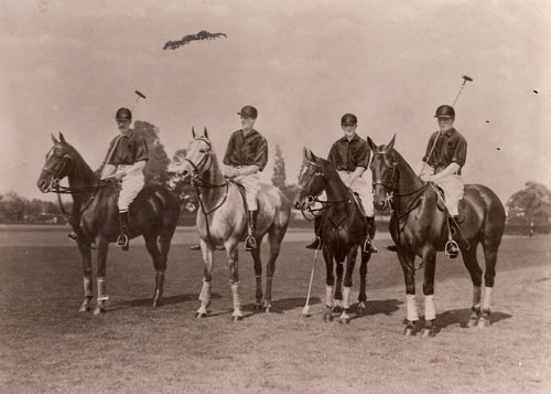 1909 British Team for the International Polo Cup